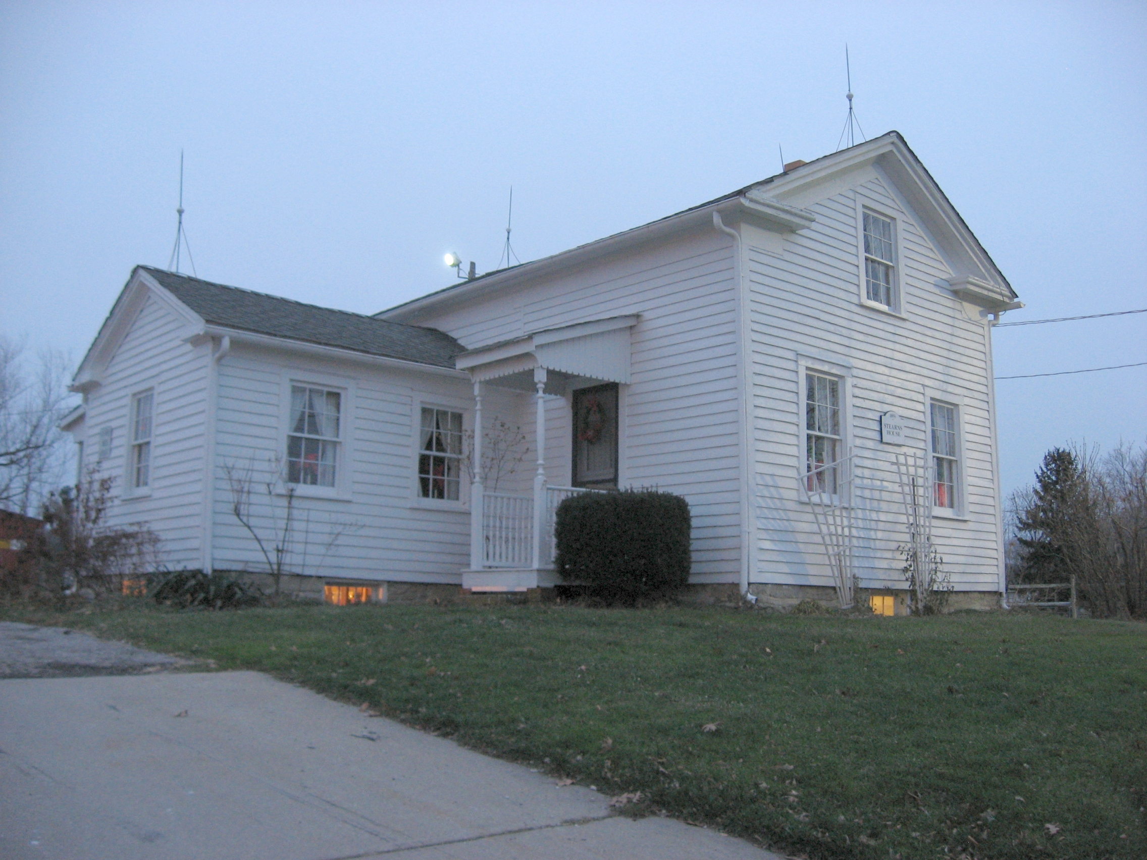 View of the house of the Lyman Stearns Farm in central Parma, Ohio, United States. Located at 6975 Ridge Road, the property (now the Parma Area Historical Society) is the only remaining farm in the city, which has become urbanized since the end of the Second World War. Built in 1855, the house and the rest of the farm have been listed on the National Register of Historic Places since 1981.